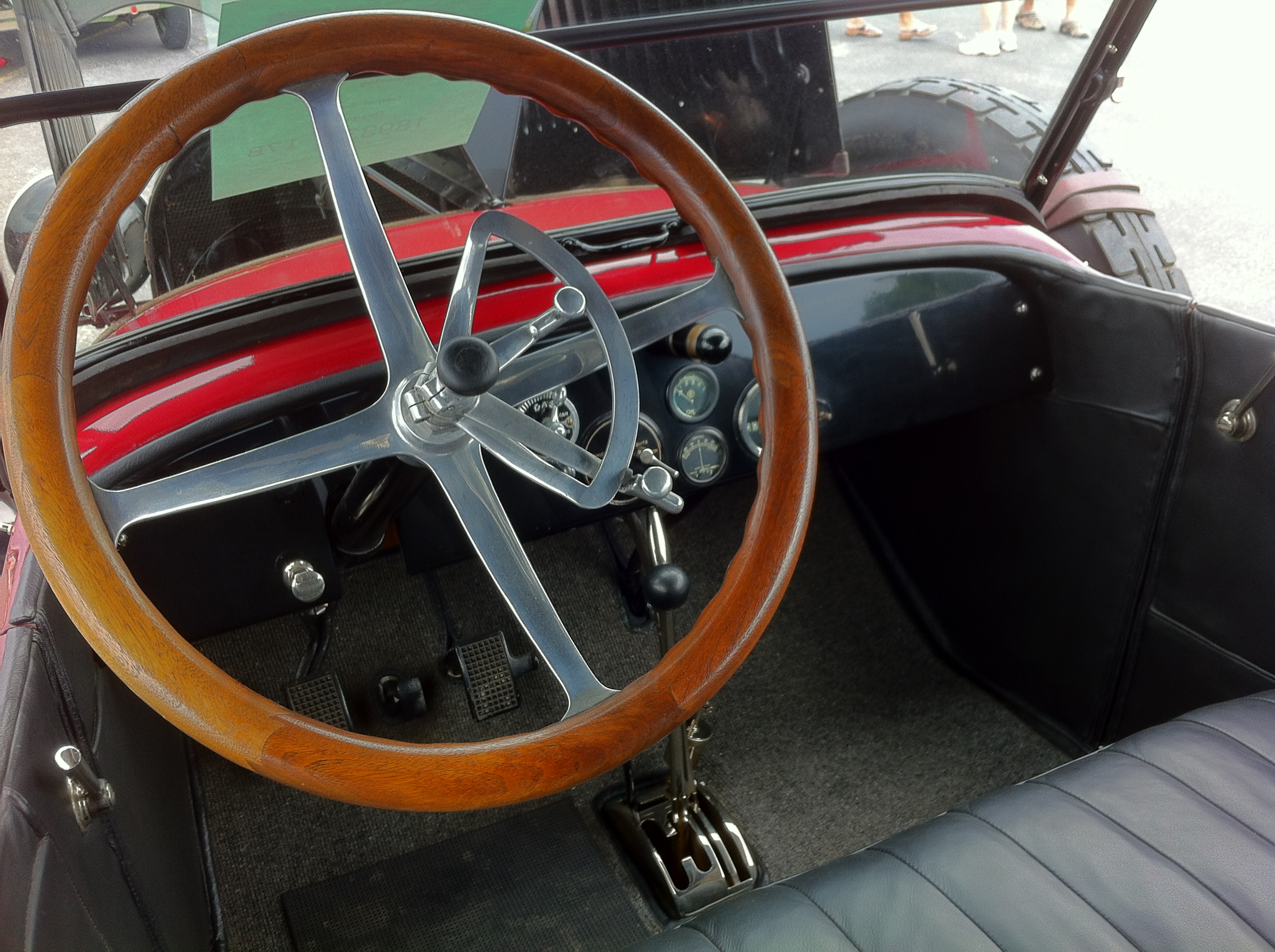 1921 Hudson Super Six Phaeton finished in red and black. Picture taken at the 2012 AACA "Central Meet" held in Cedar Rapids, Iowa, USA.